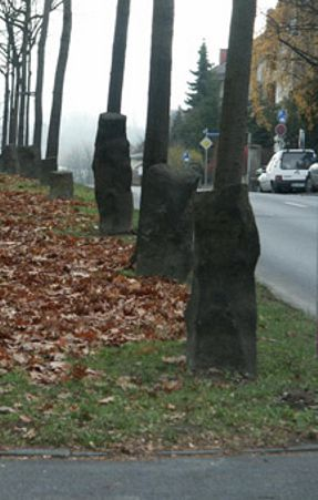 7000 Oaks, project by Joseph Beuys.